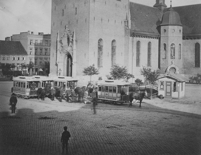 Kristiania Sporveisselskab horsecars in front of Oslo Cathedral